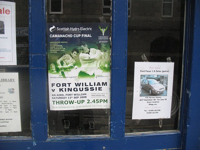 Garage window, Kingussie Poster for the big match the following weekend. Kingussie currently dominate Shinty - probably to a greater extent than any other team in any sport.